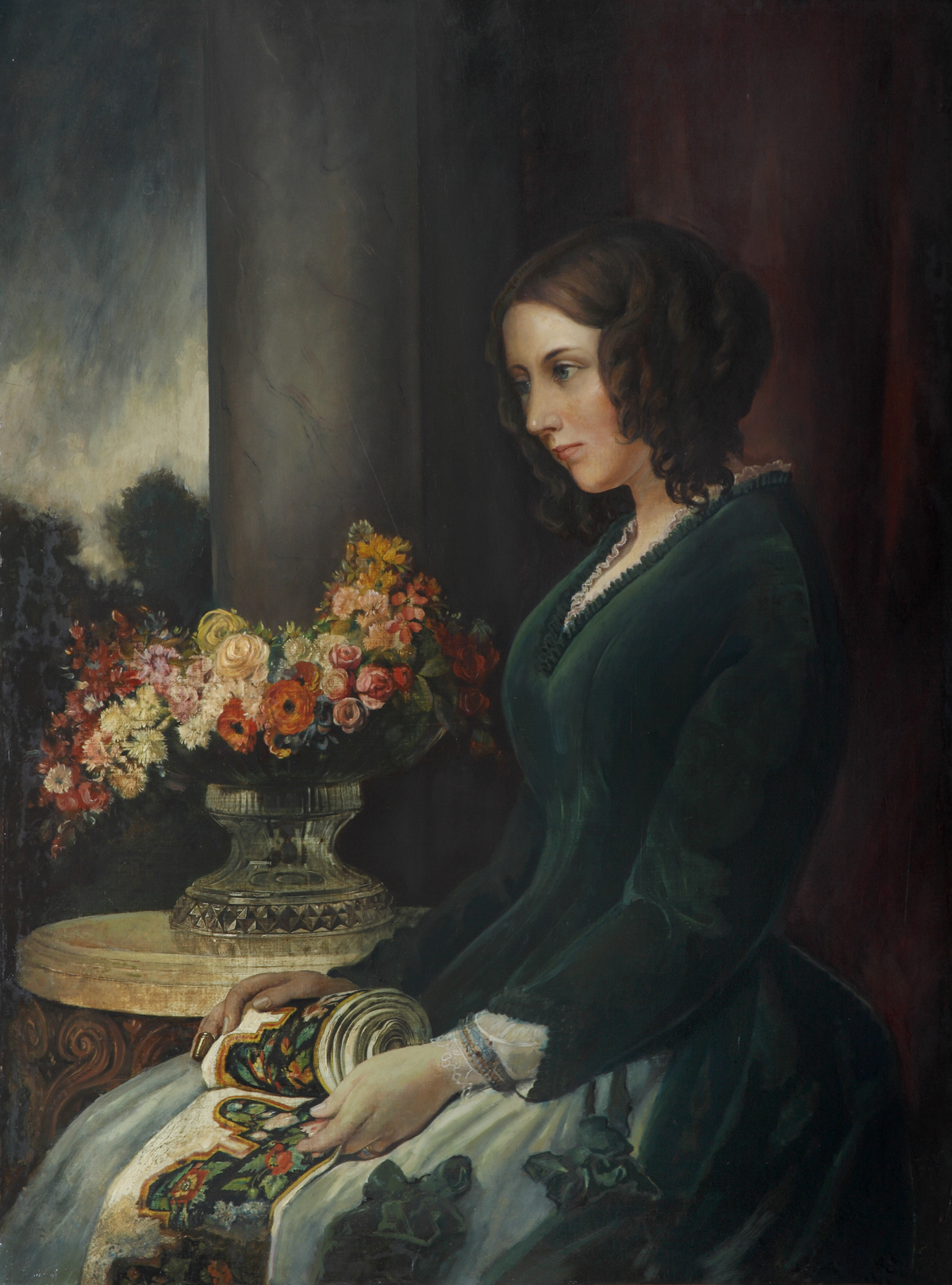 Portrait in oils by Daniel Maclise